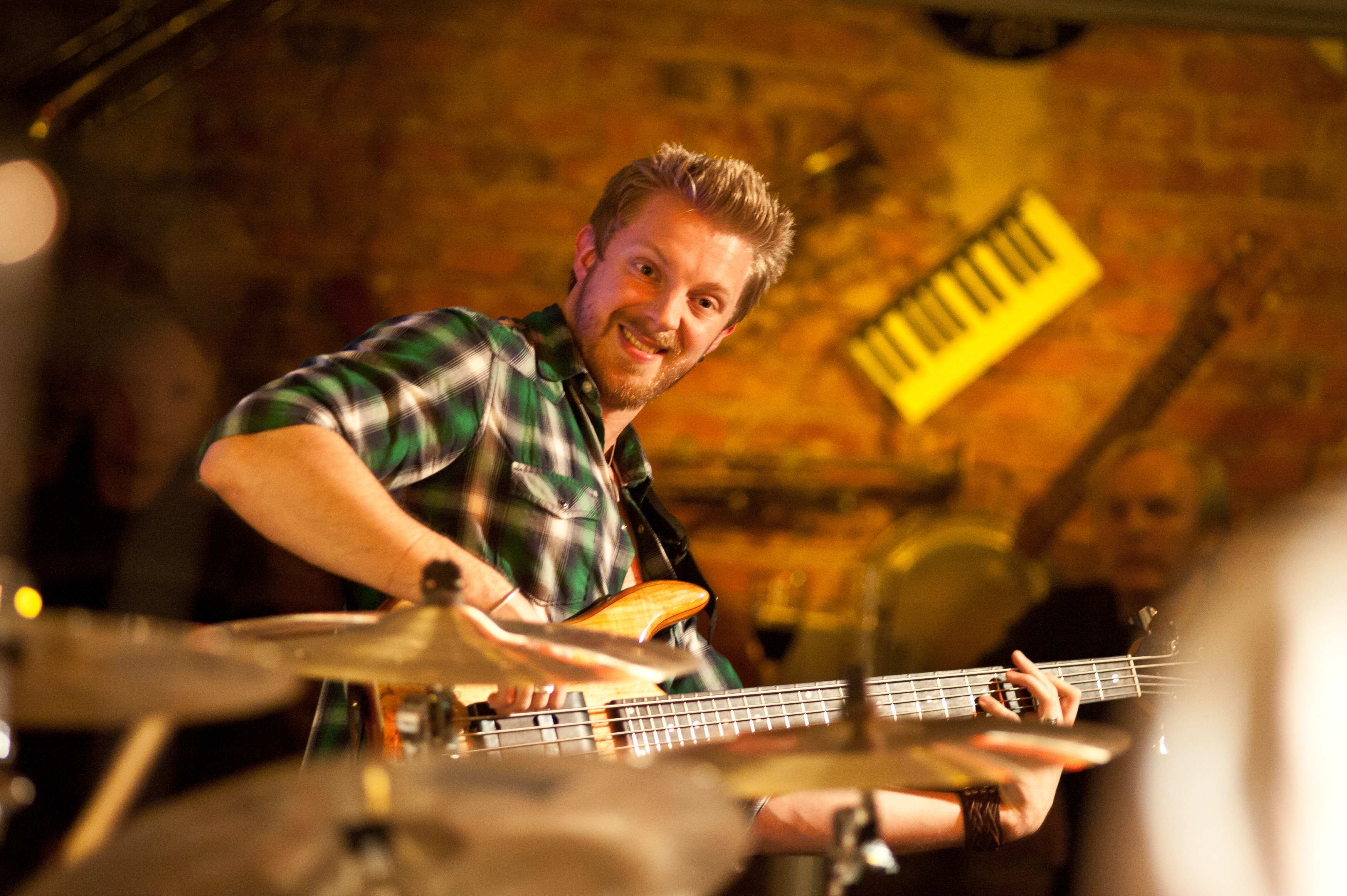 Hadrien Feraud performing with Dean Brown Band at Jazz Club Minden in Germany (2012)